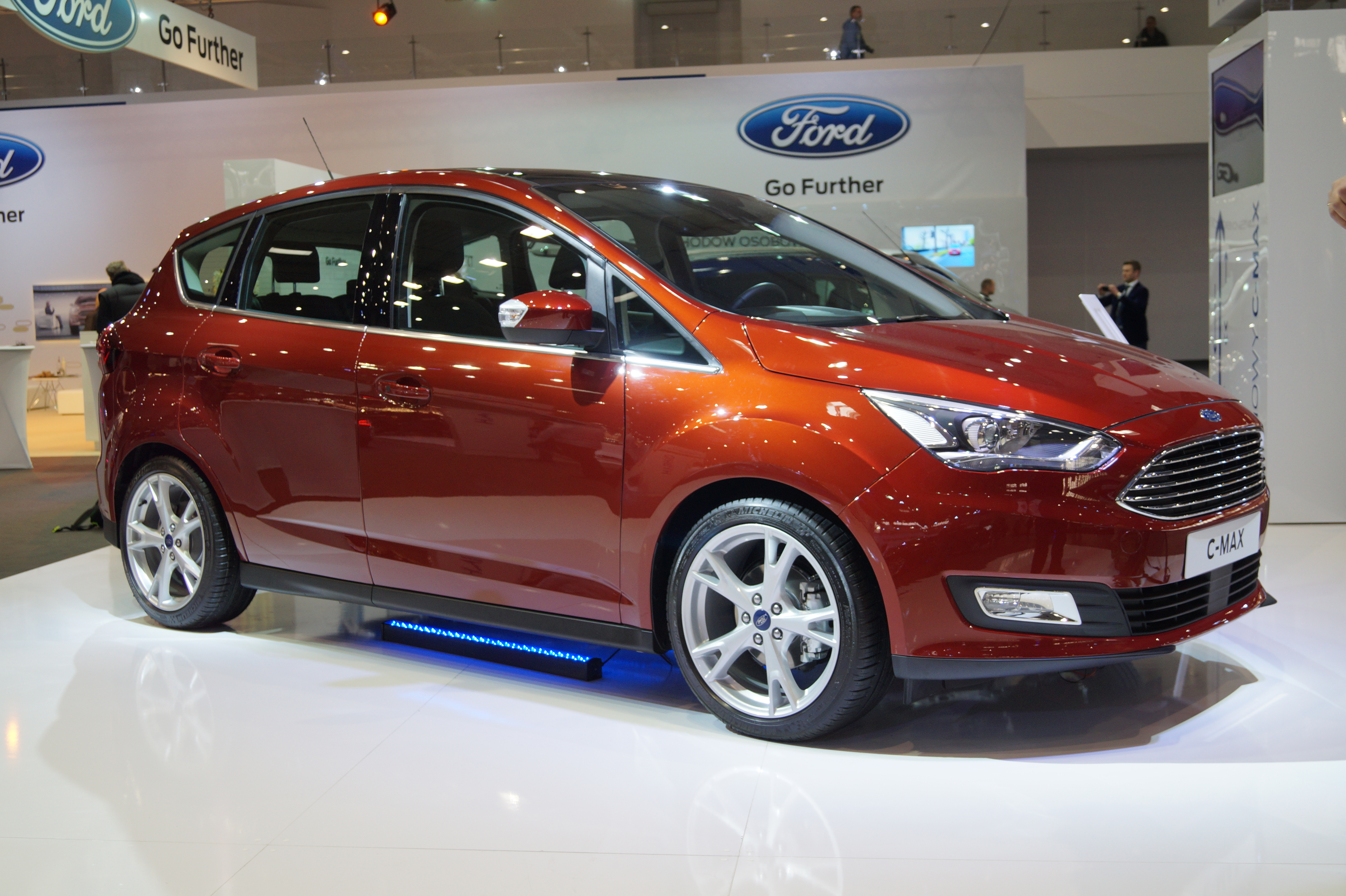 The making of this document was supported by Wikimedia Polska Association, within Wikigrant no. WG 2015-19. English | polski | +/− Ford C-Max na Motor Show Poznań 2015